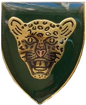 SADF 10 SAI emblem